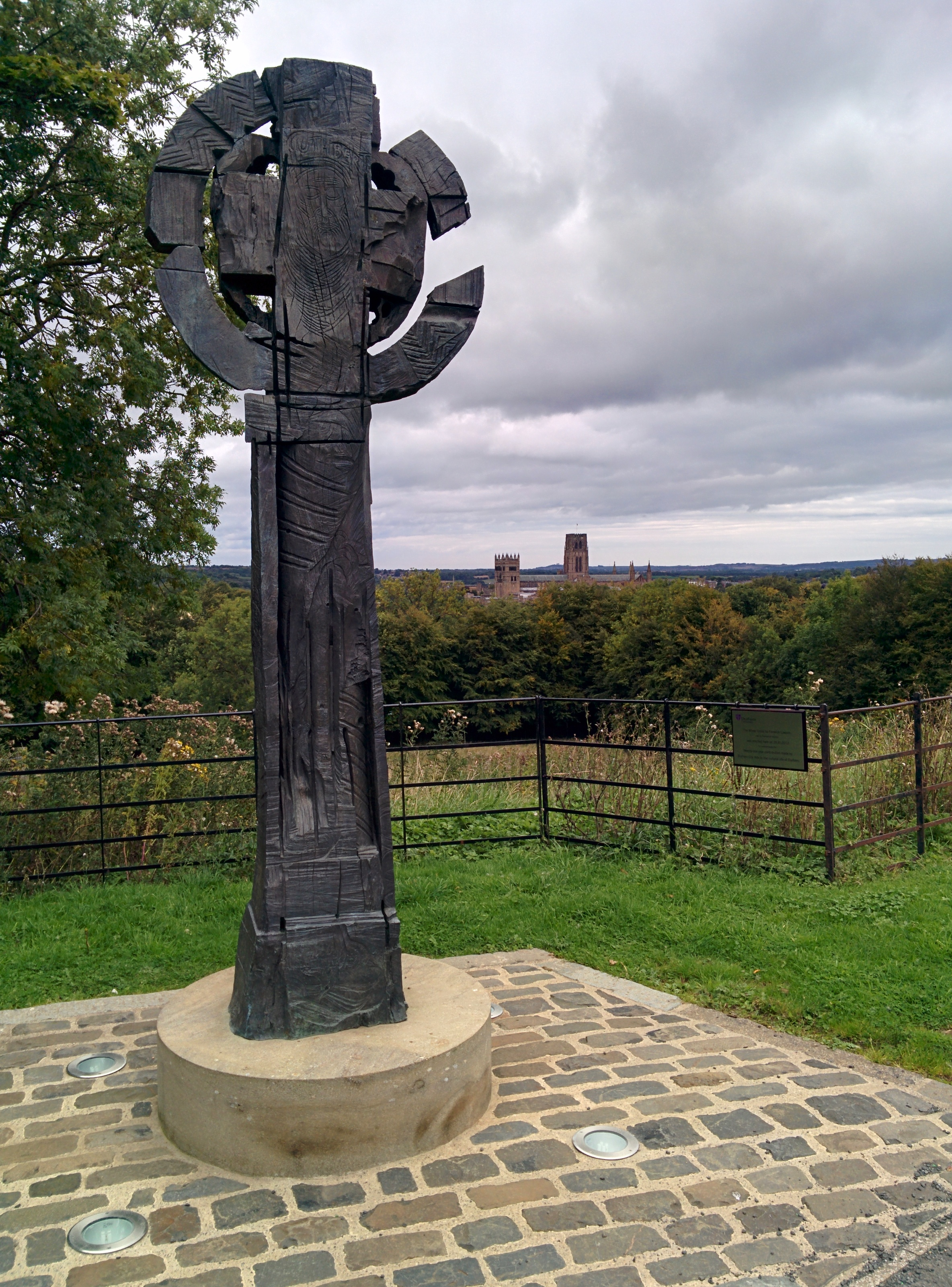 Wheel Cross by Fenwick Lawson (Bronze Casting placed by Durham City Arts 2013) at St Aidans College. In the background is Durham Cathedral.